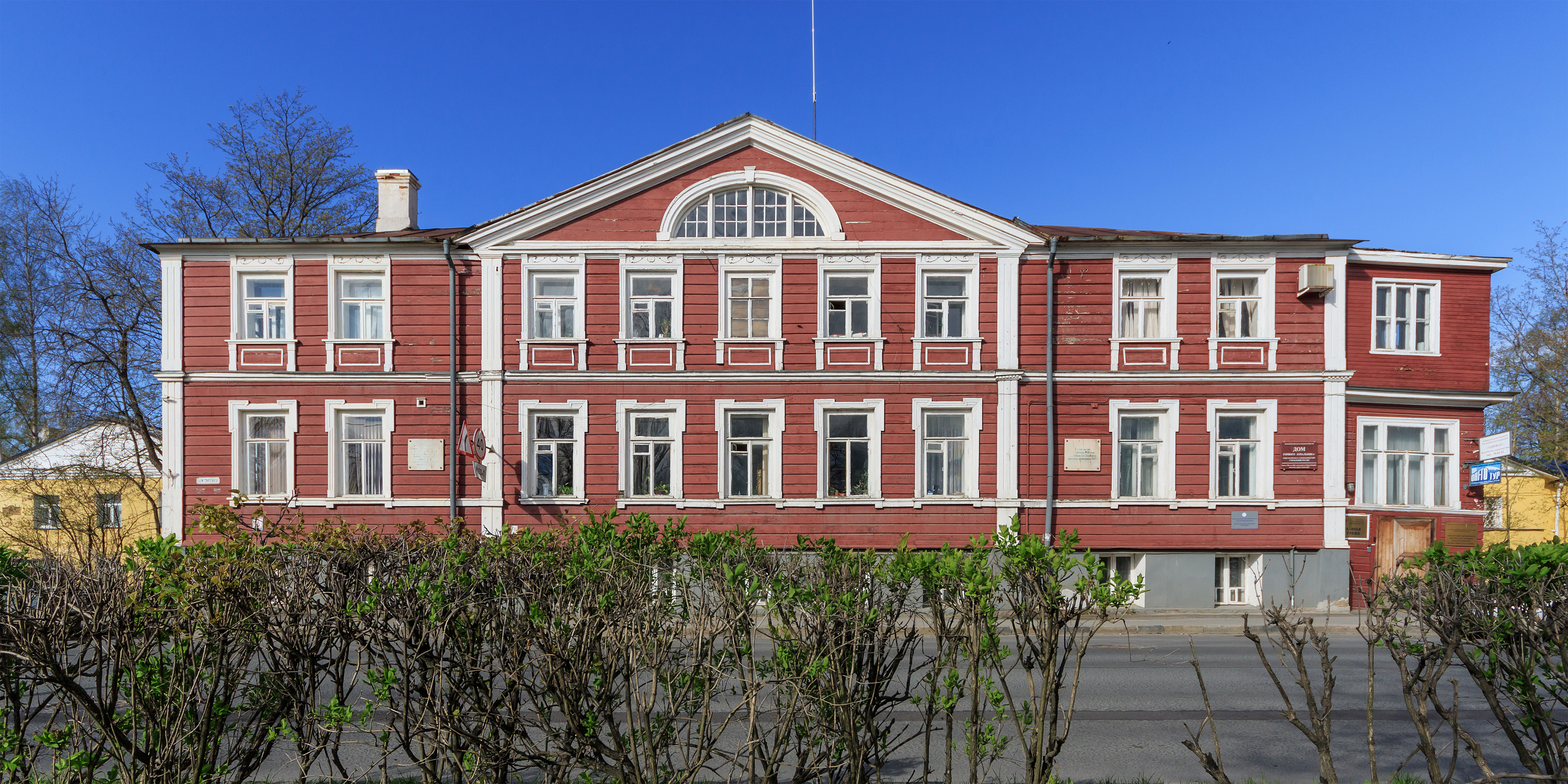 House of Factory Master in Petrozavodsk, Republic of Karelia (Russia).